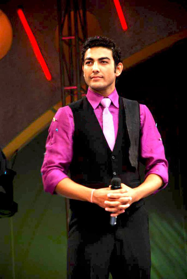 Mr. India, Pravesh Rana.